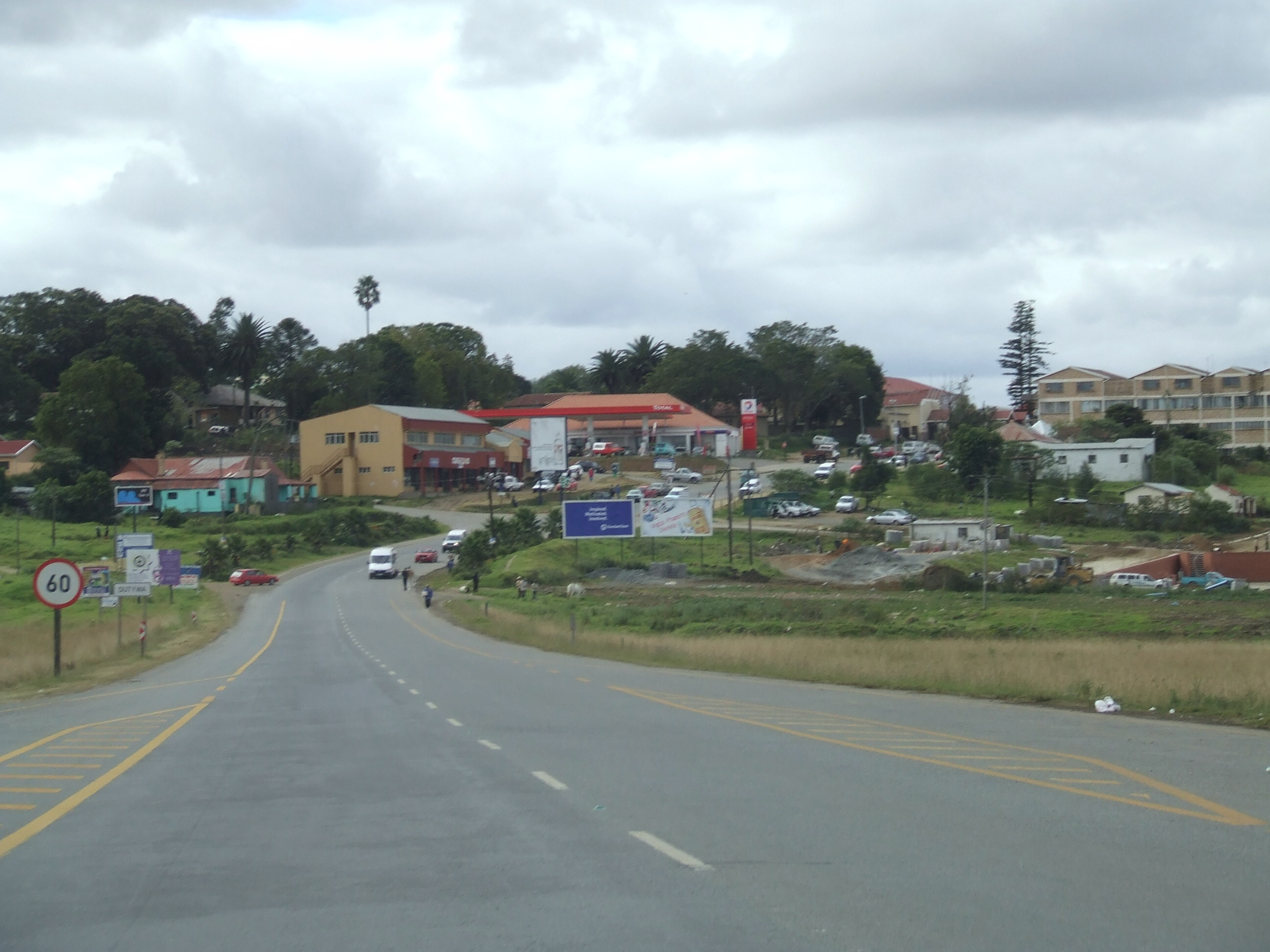 Large town just south of area where Nelson Mandela grew up in 1920's and 1930's.